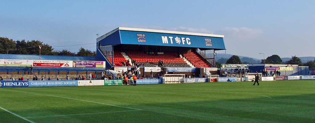 Silk FM Main Stand, Moss Rose. Image cropped from original at flickr.